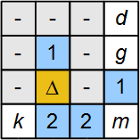 An example of tentaizu with 4x4 board - solved partially.